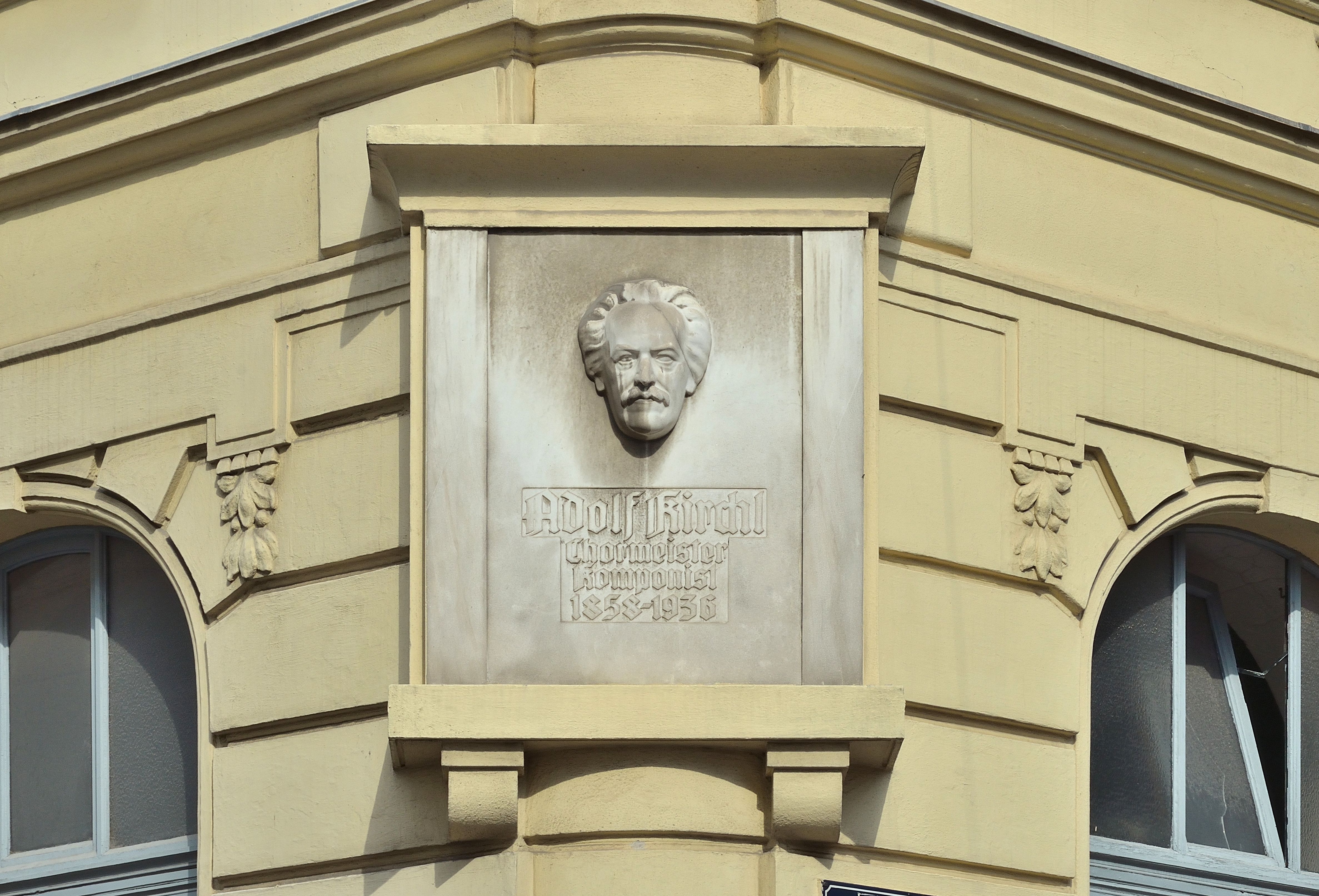 Plaque for composer and conductor Adolf Kirchl at Baumanngasse 1 / Beatrixgasse in Landstraße, Vienna.